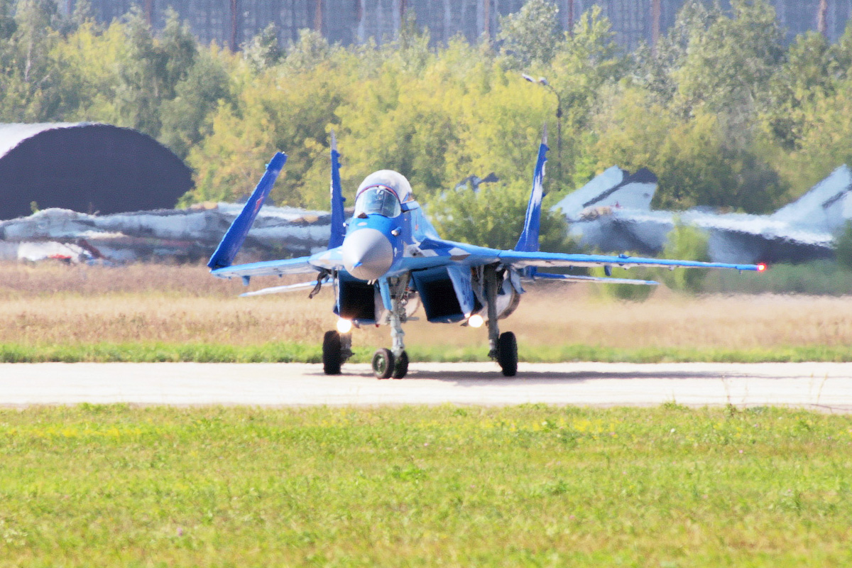 Naval MIG-29's salute at MAKS 2007